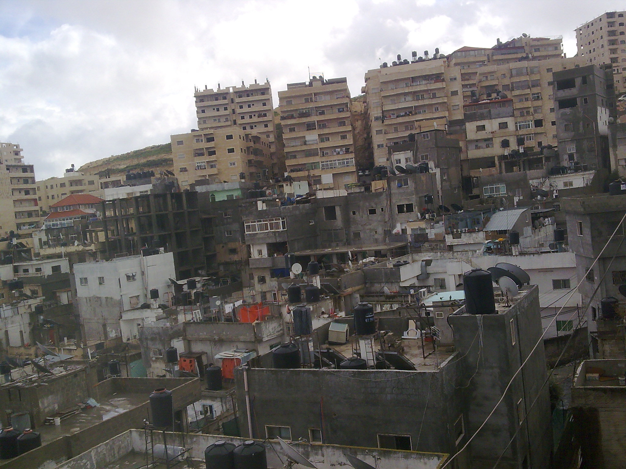 Shufat camp.